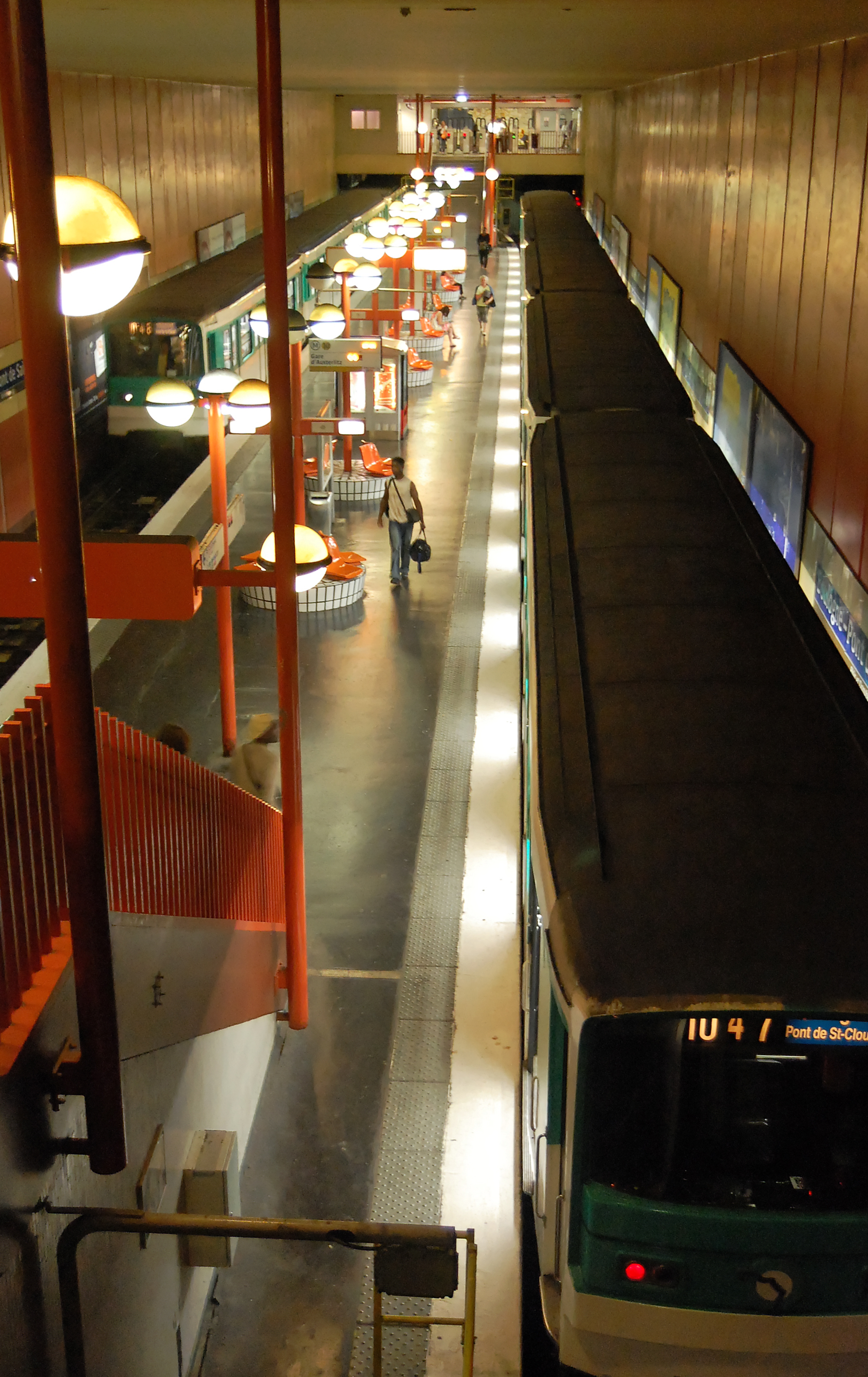 The Paris Metro station Boulogne Pont de Saint-Cloud, end of the Ligne 10.